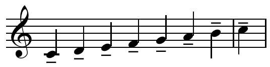 Diatonic scale on C, tenuto articulation.